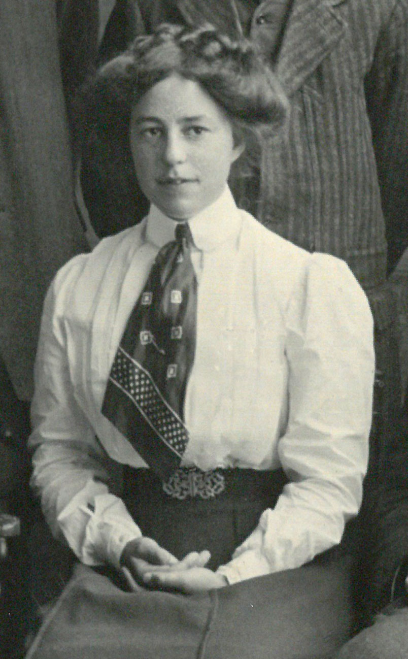 Portrait of Kathleen E. Carpenter, cropped from a group photograph of the Scientific Society of the University College of Wales, Aberystwyth, 1910-11.